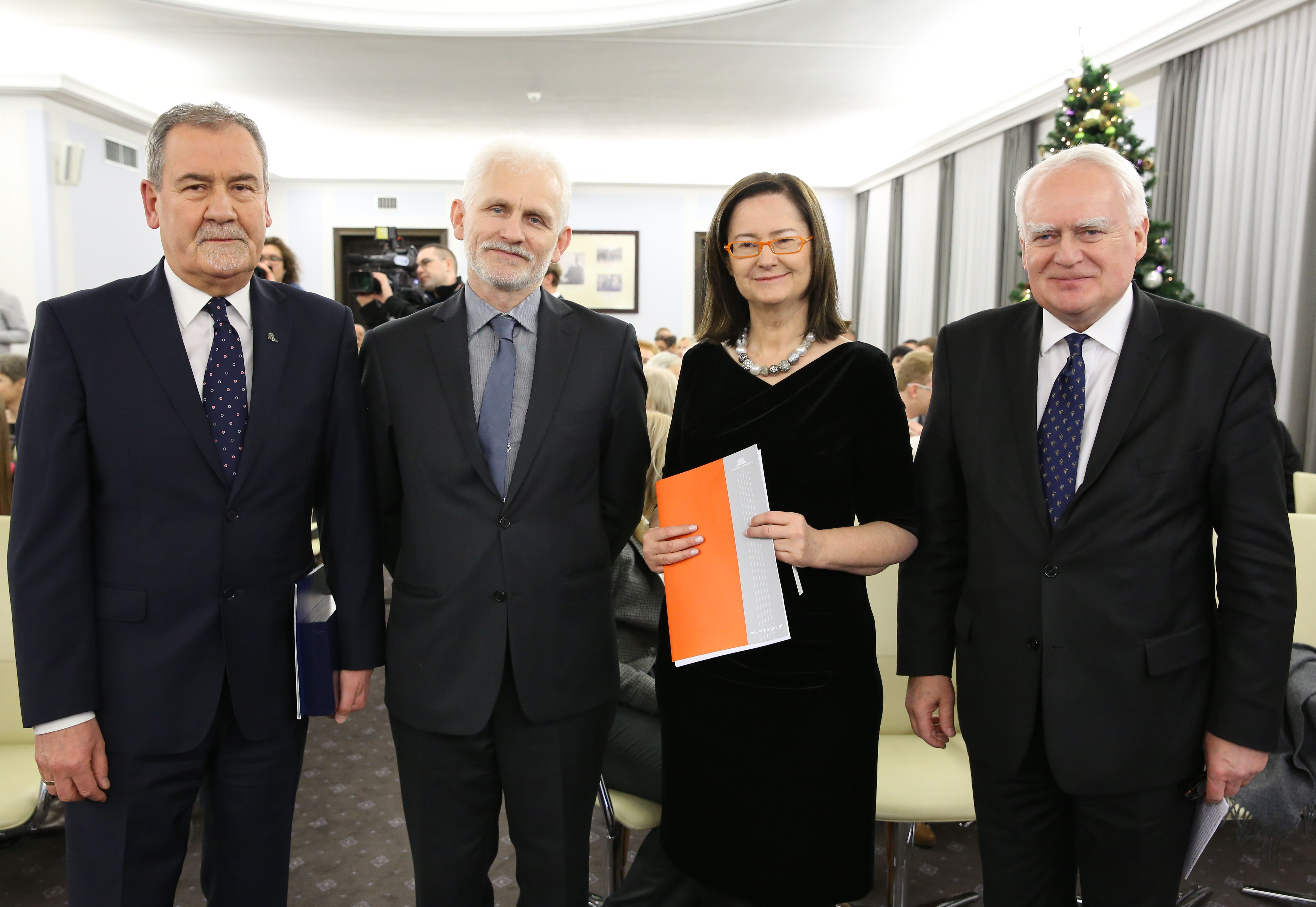 Ales Bialiatski during Paweł Włodkowic Award ceremony in the Polish Senate